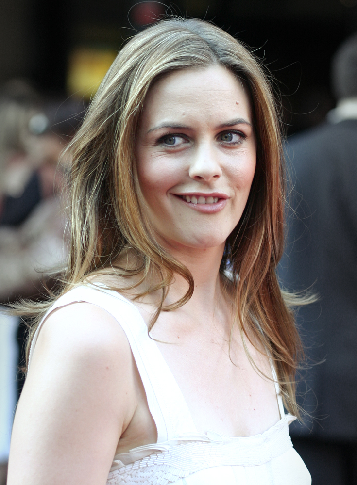 Alicia Silverstone at the Stormbreaker London premiere.